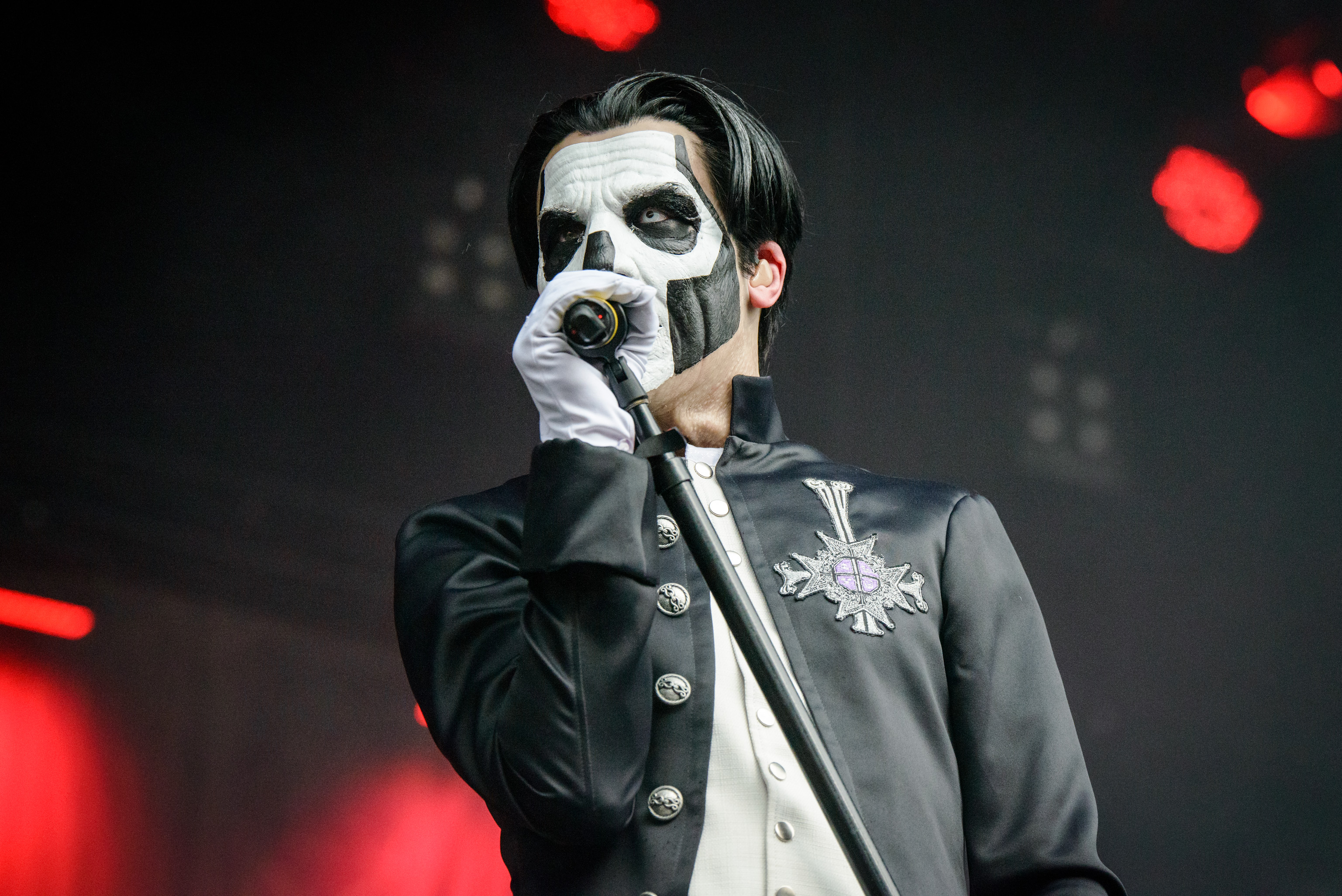 Ghost Live @ Rockavaria 2016